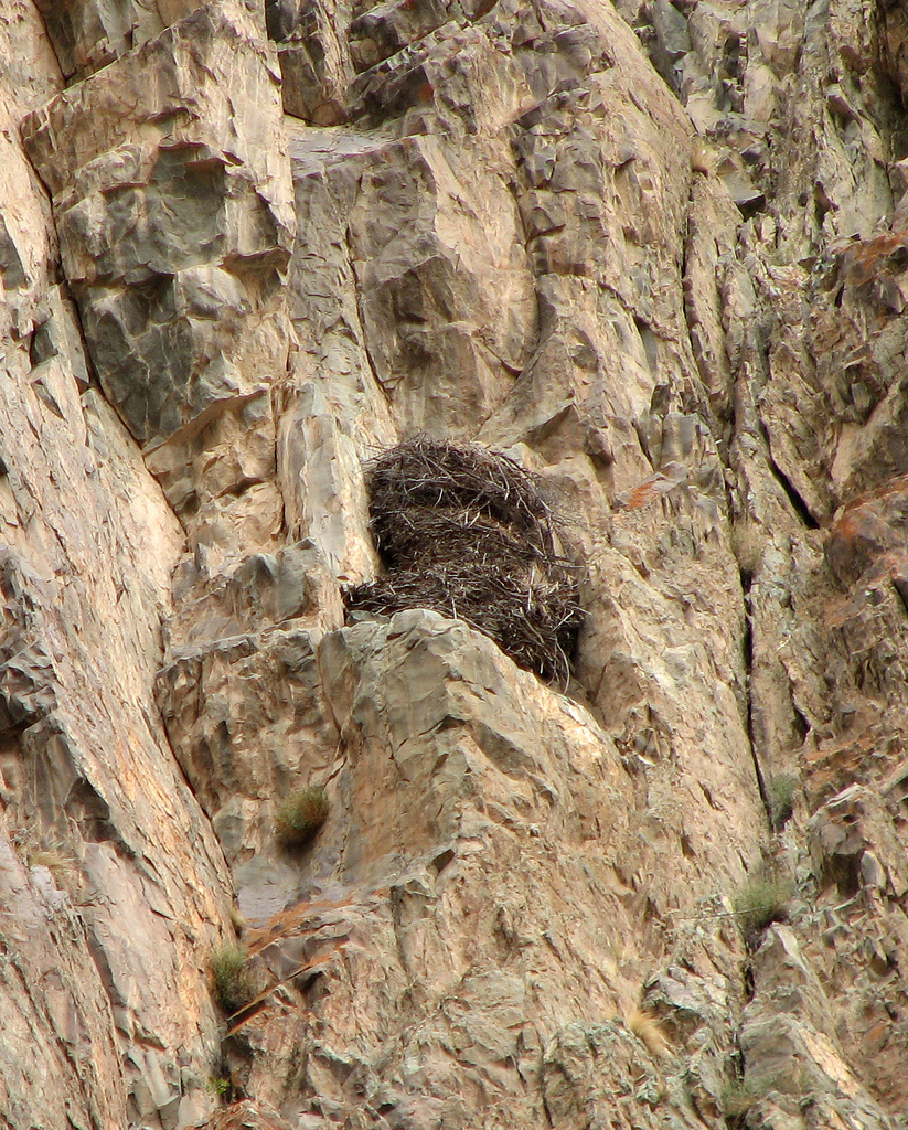 A Golden Eagle's nest in the Stok Mountain range (goes without saying, this was a cliffside nest)